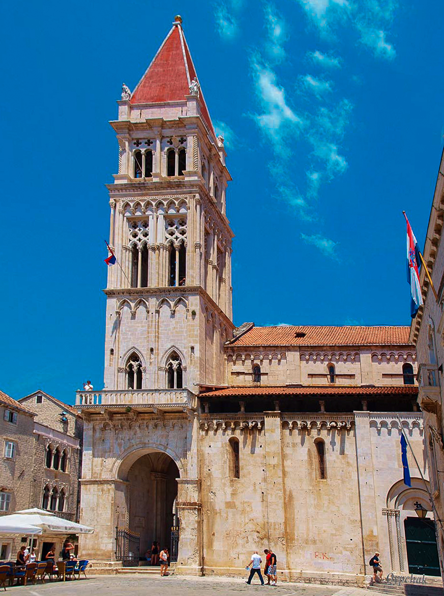 Cathedral of St. Lawrence in Trogir